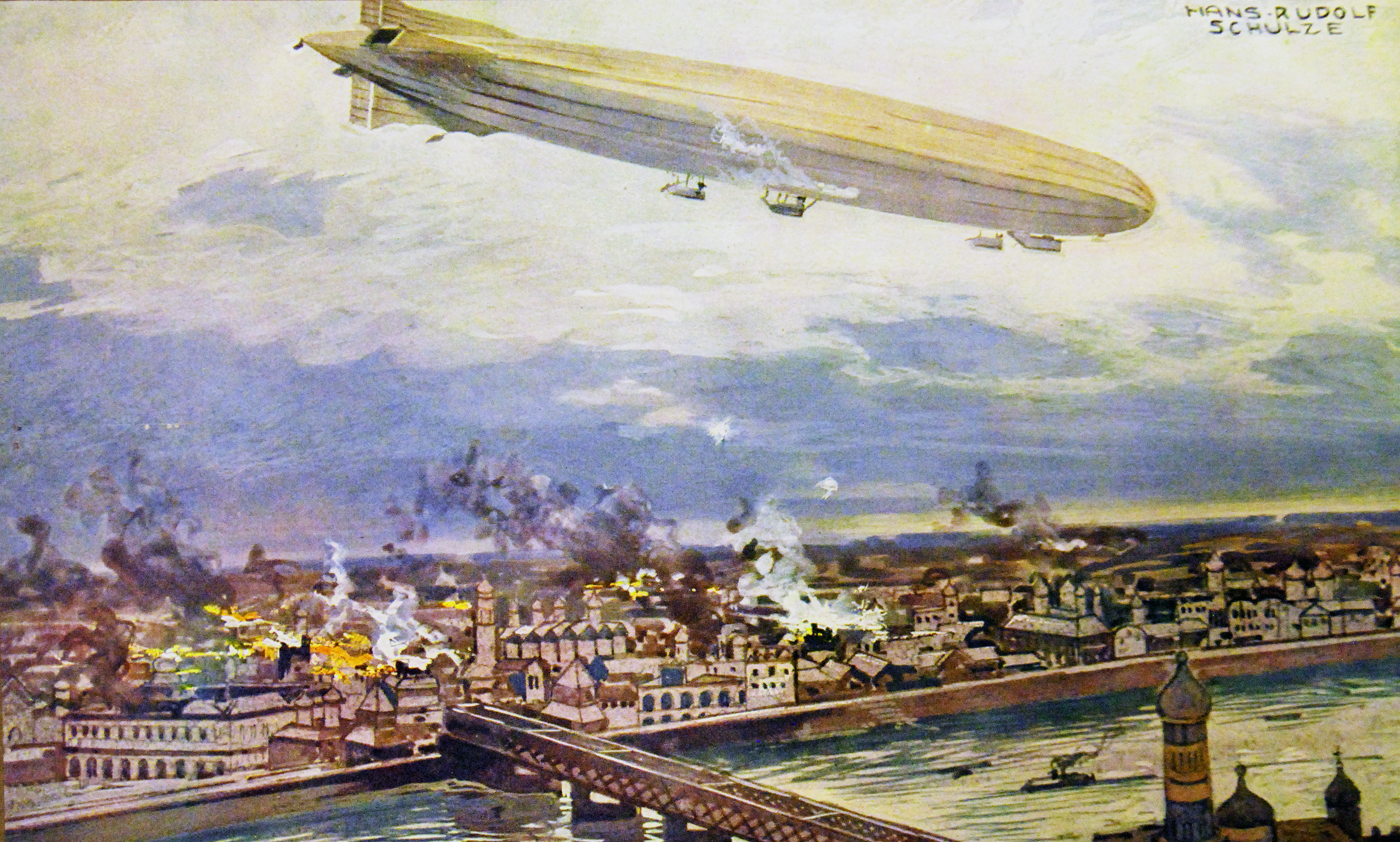 Lot-6112-5: “German Schutte-Lanz Airship SL2 bombing Warsaw, Poland, in 1914” Translated from German publication, “Our Air Fleet in the World War.” Artwork by Hans Rudolf Schulze. Courtesy of the Library of Congress. (2016/10/28).